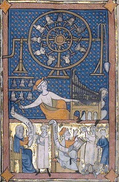 Seven liberal arts. There is no division on trivium and quadrivium. The second page. In the top part Music plays on two musical instruments, her left hand is touching the keyboard (helped by the boy) and her right hand rings a bell. Below at the left the Logic learns one student, and on the right Rhetoric, folded her legs, two students.